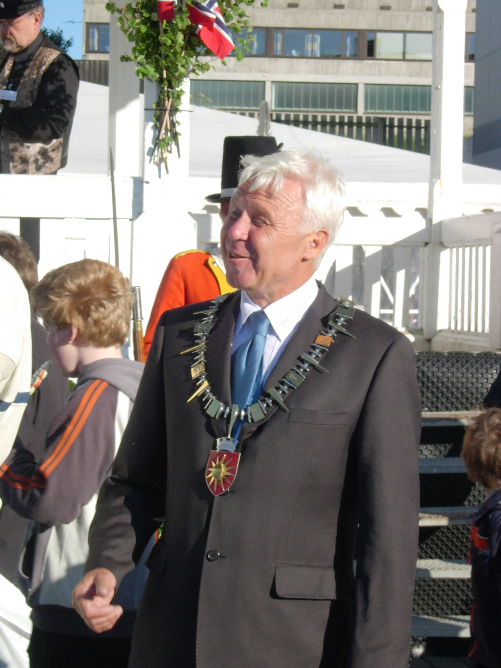 Mayor of the Municipality of Bodø, Norway